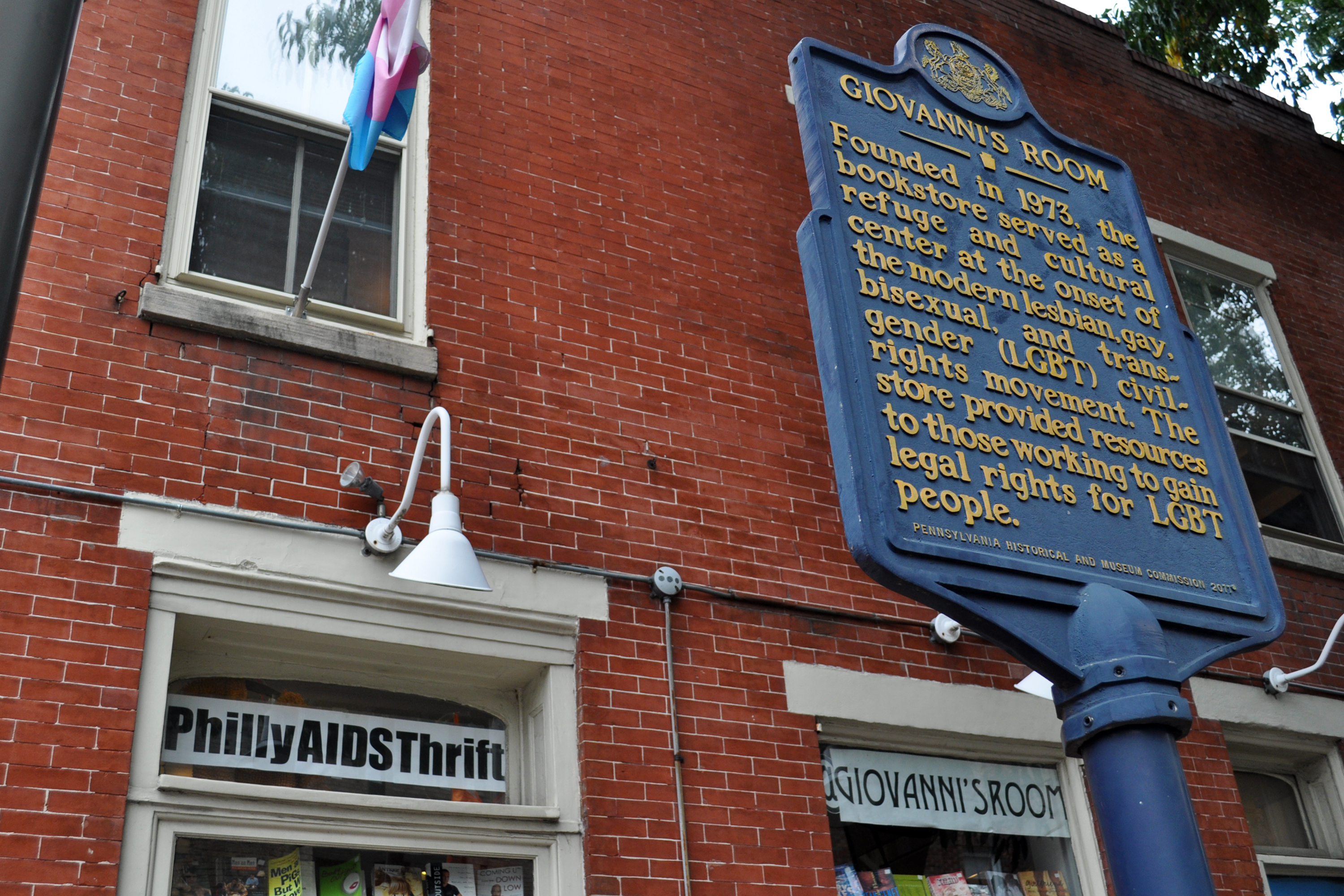 Giovanni's Room. Founded in 1973, the bookstore served as a refuge and cultural center at the onset of the modern lesbian, gay, bisexual, and trans-gender (LGBT) civil-rights movement. The store provided resources to those working to gain legal rights for LGBT people. (Historical Marker at NE Corner S 12th & Pine Sts Philadelphia PA - PA Historical & Museum Commission 2011)